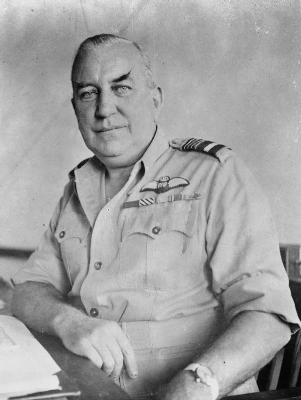 Air Marshal A Durston, Air Officer Commanding No. 222 (General Reconnaissance) Group RAF, at Group Headquarters, Colombo, Ceylon.